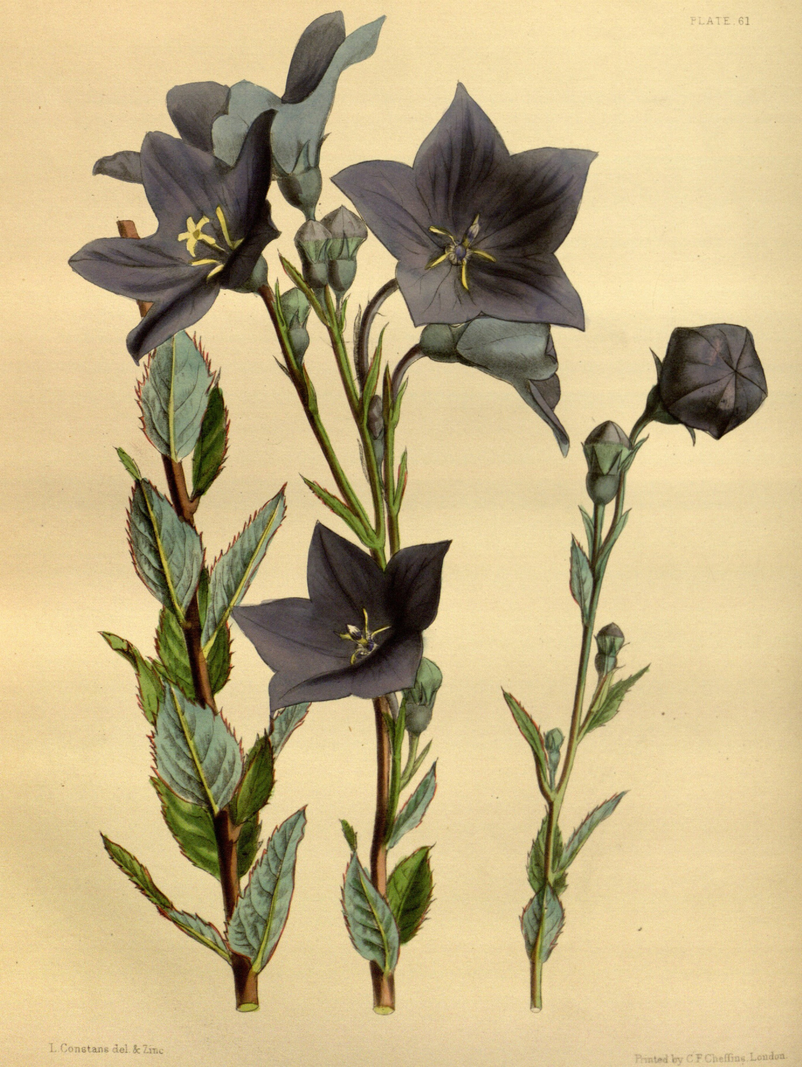 Platycodon grandiflorus (Jacq.) A.DC., syn. Platycodon chinensis Lindl. & Paxton